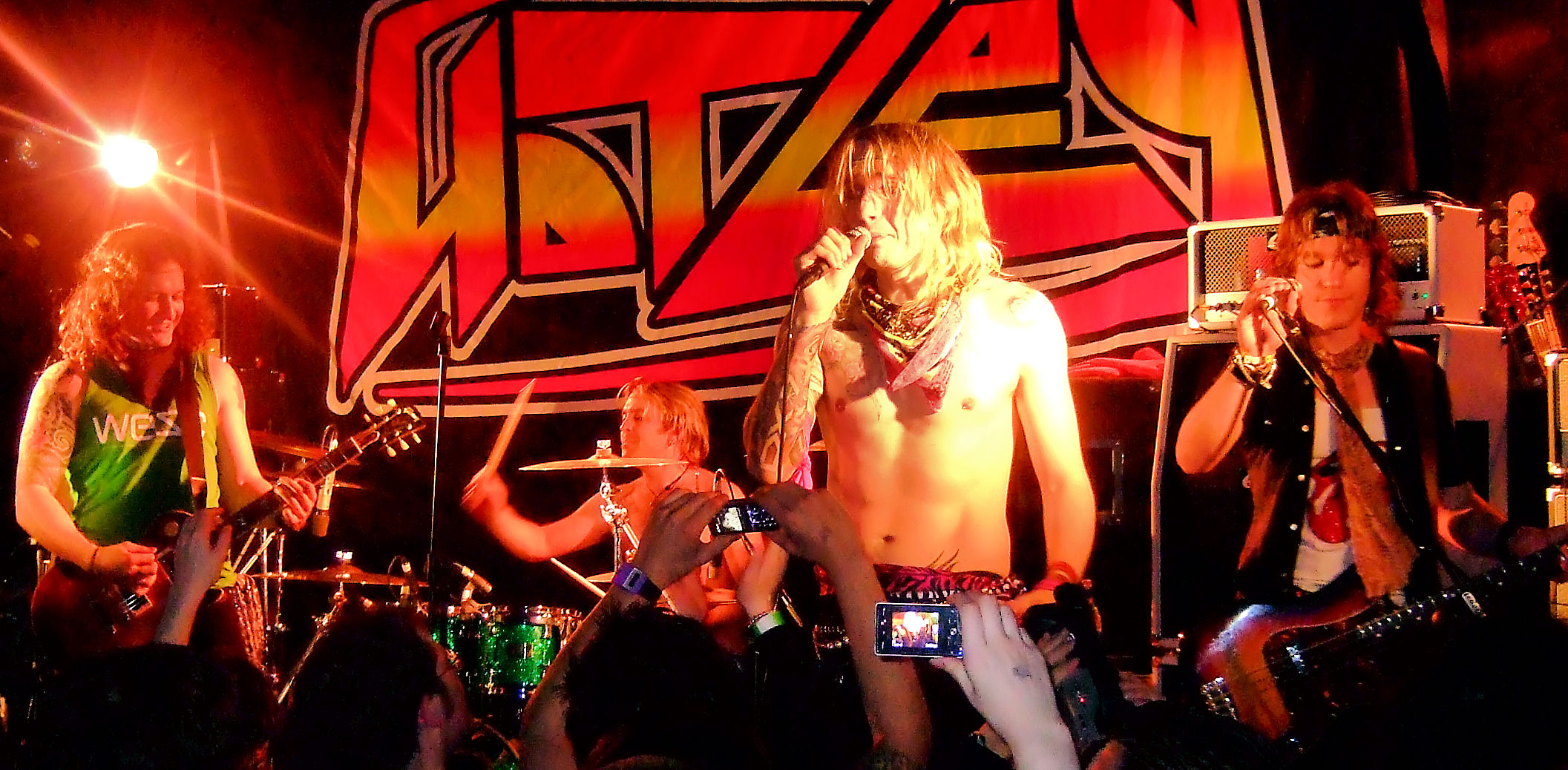 Hot Leg at Dundee Doghouse, 18 October 2008